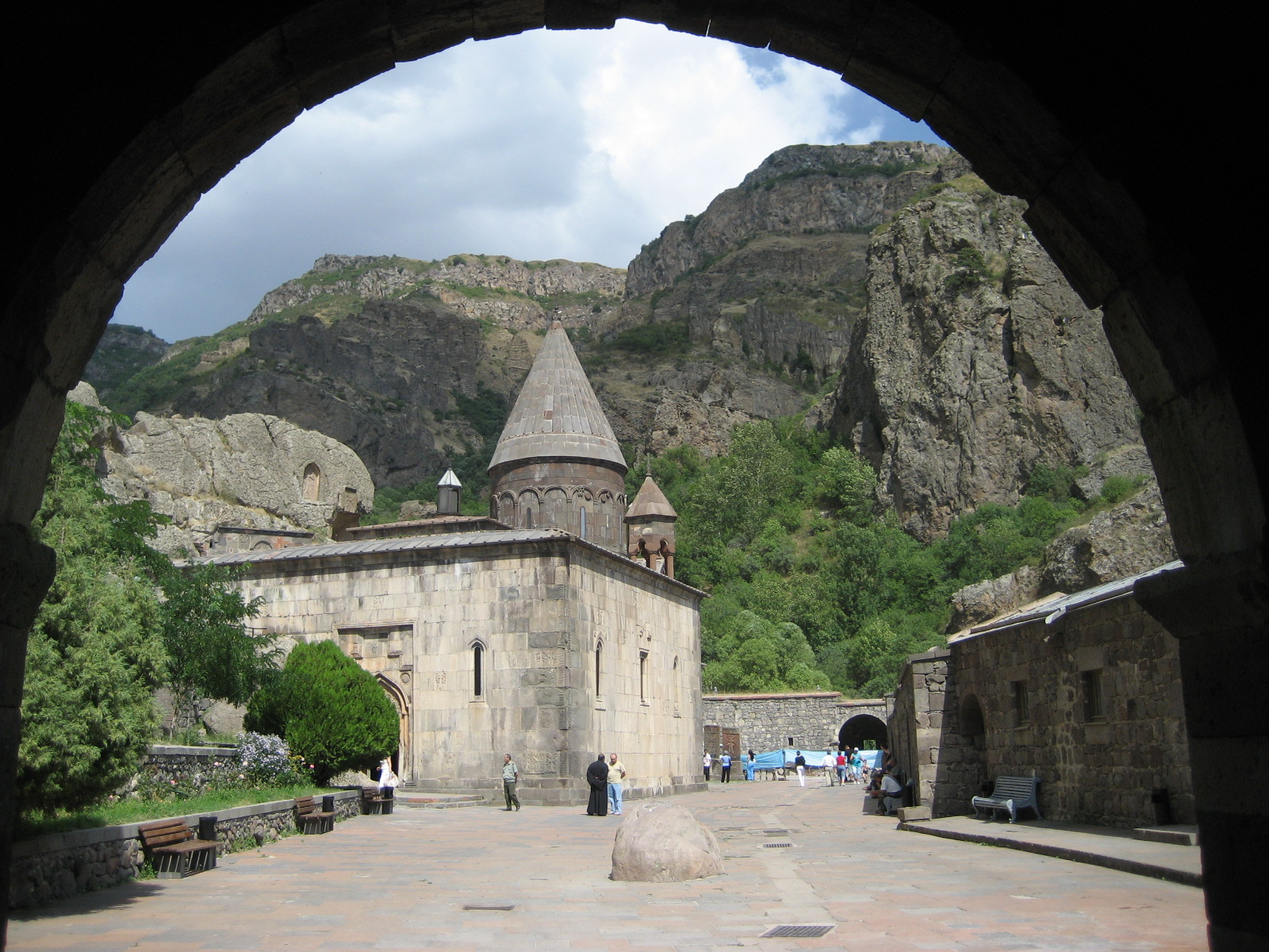 Entrance of Geghard Monastery in Armenia (UNESCO World Heritage Site).